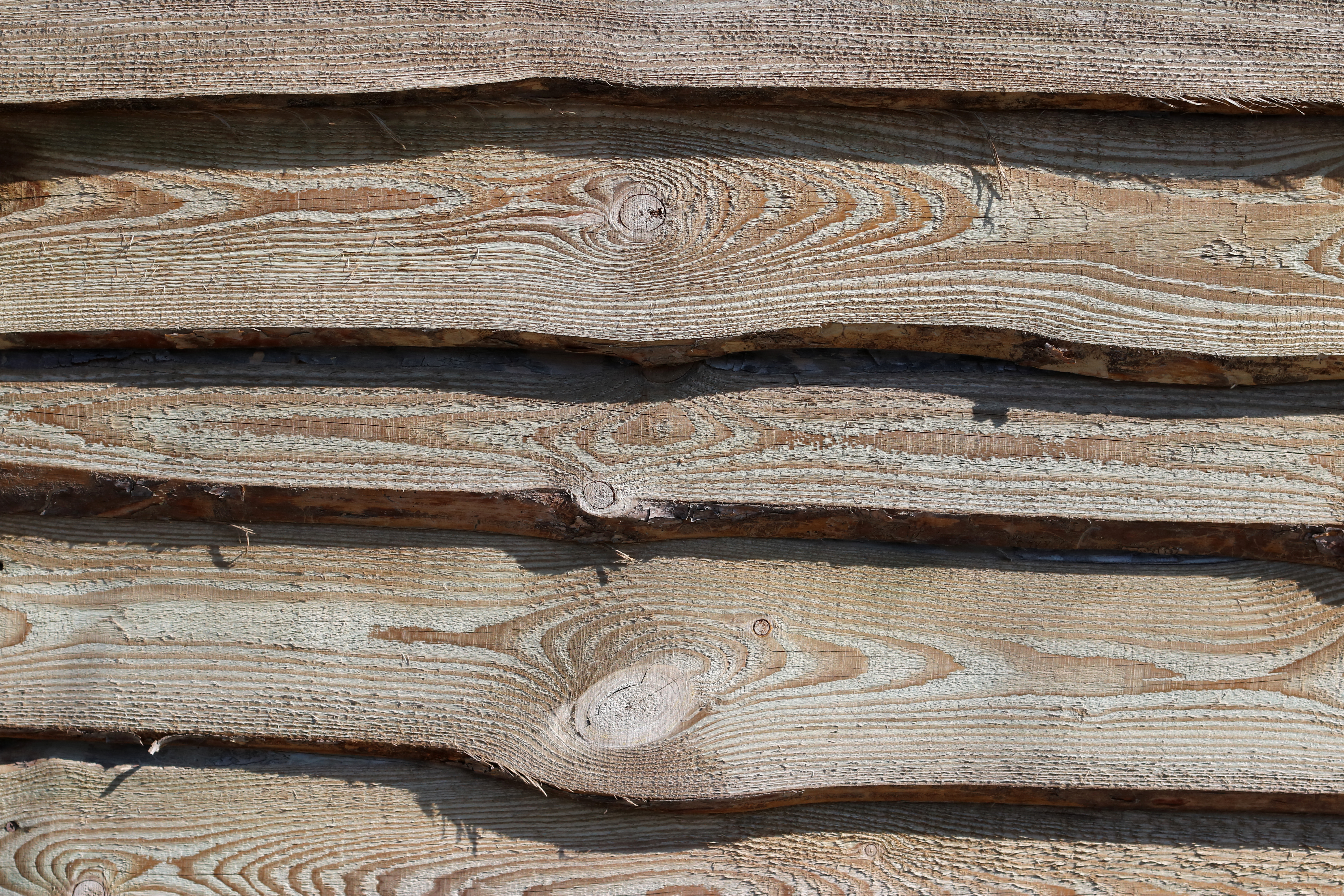 Pine plank fence. The boards are fixed horizontally between a pillars. Ukraine